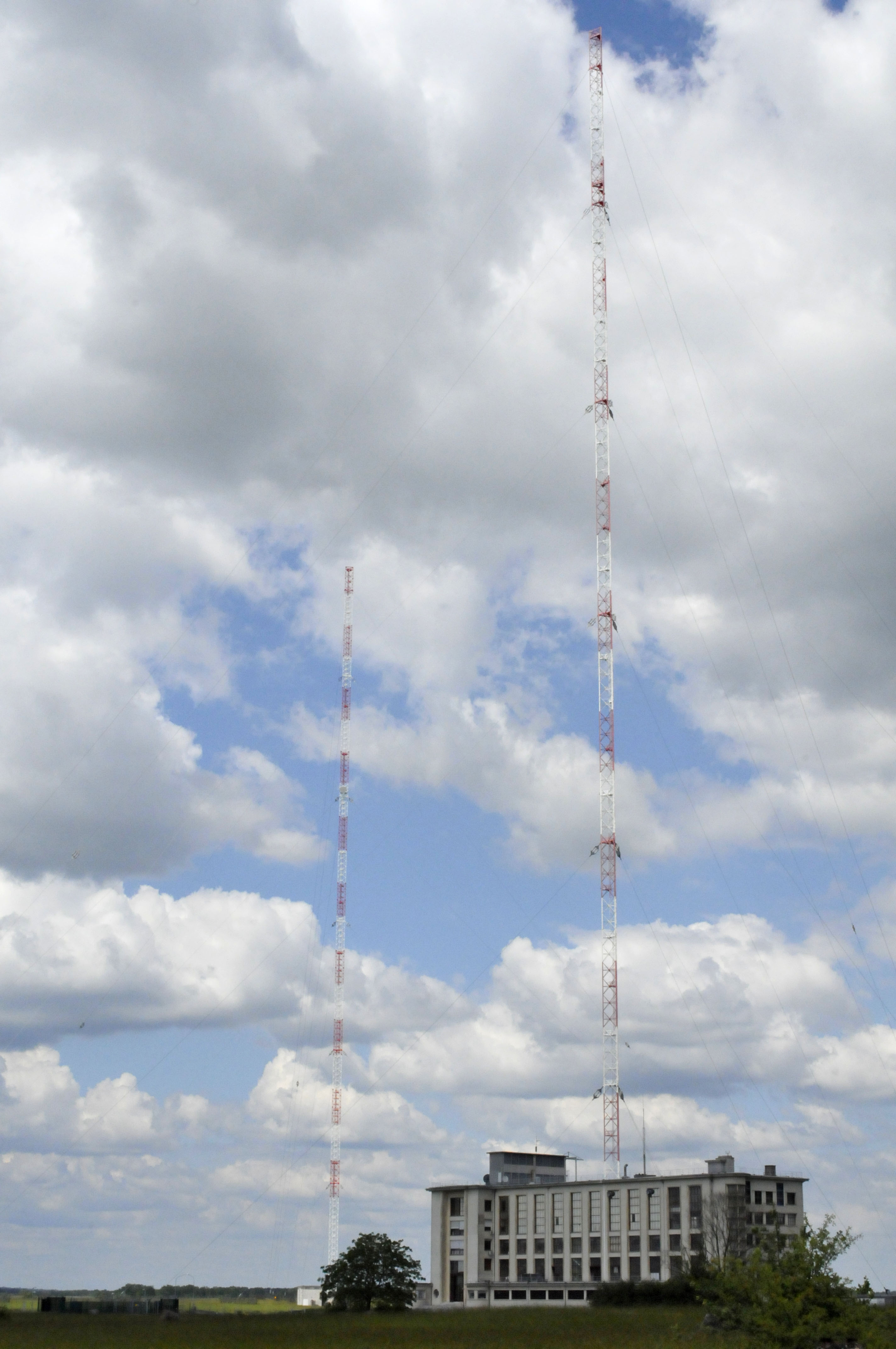 The 350 m high low frequency antennas of the Allouis longwave transmitter